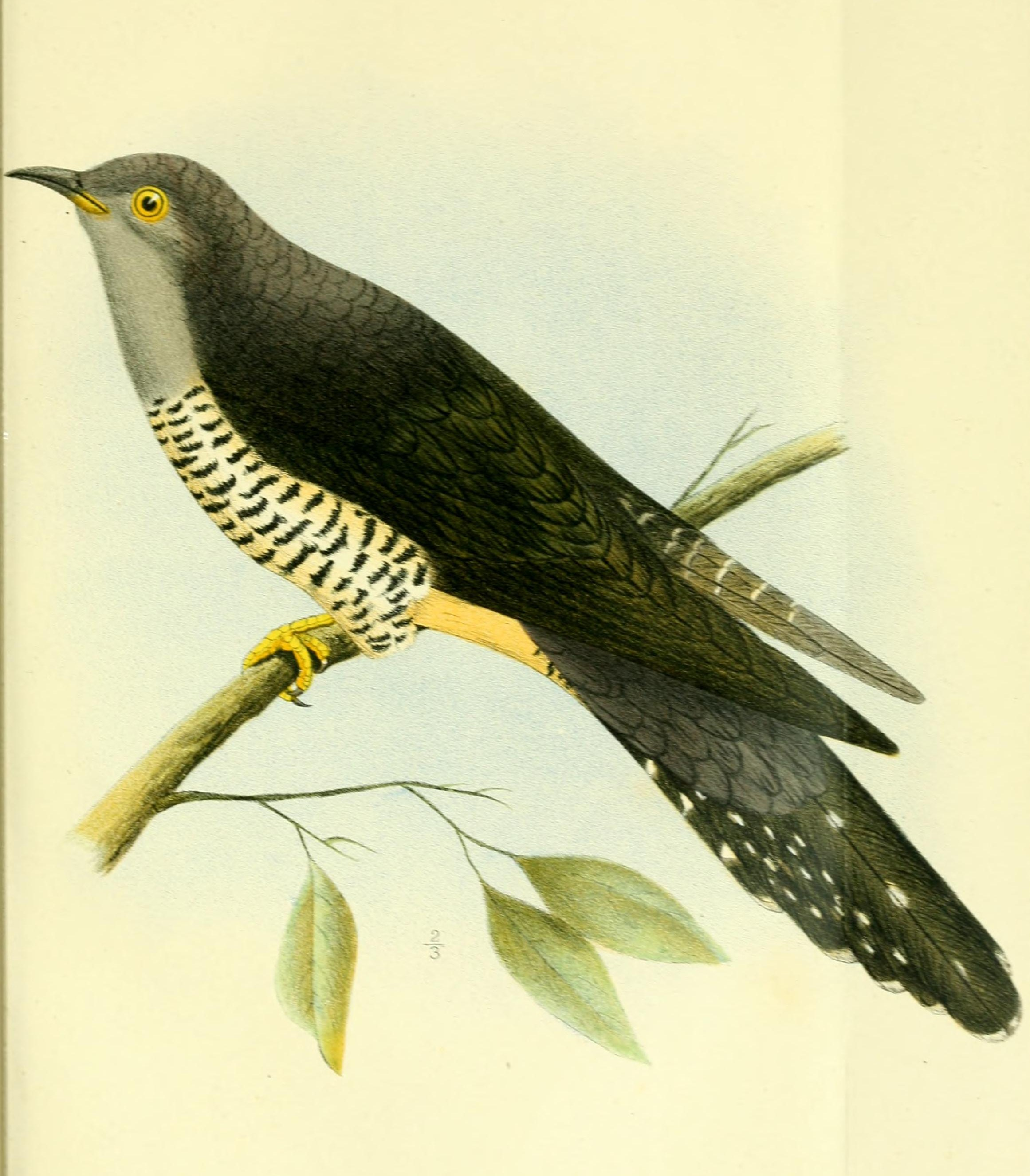 « Cuculus stormsi » = Cuculus rochii rochii (Subspecies of Madagascar Cuckoo)